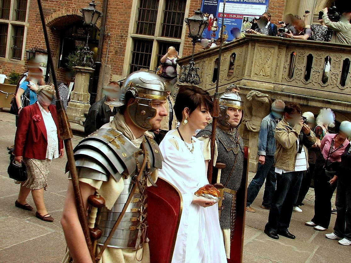 Amber Parade and preparation to common panoramic photo during III World Gdańsk Reunion.